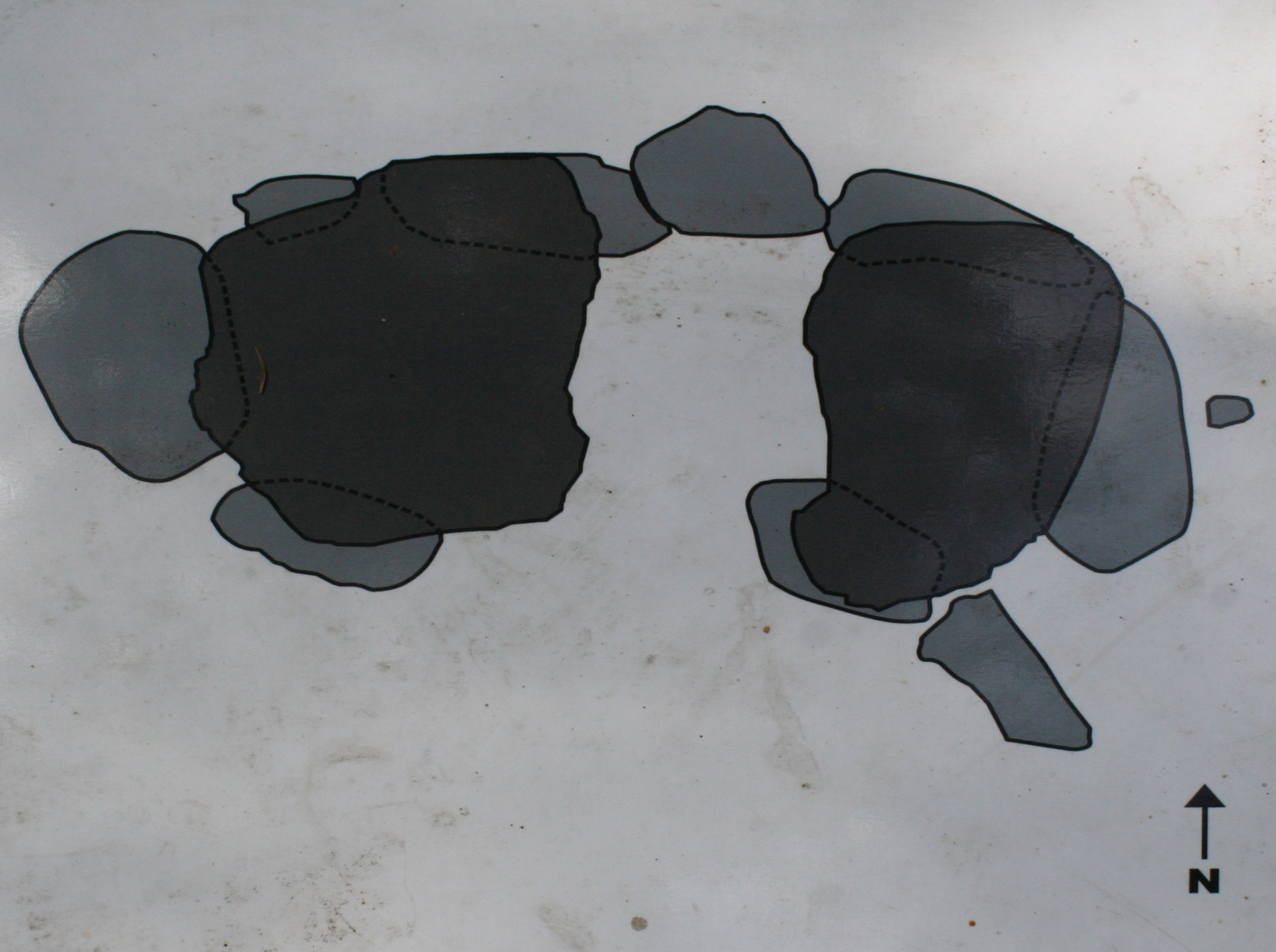 Dolmen “Teufelsküche” (“Devil's kitchen”) at Haldenslebener Forst